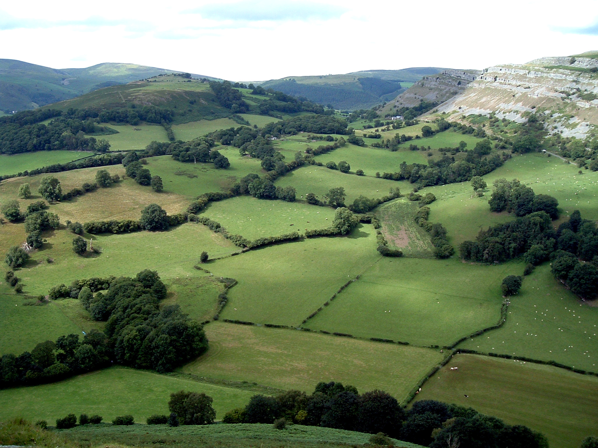 View of countryside surrounding Llangollen from Dinas Bran